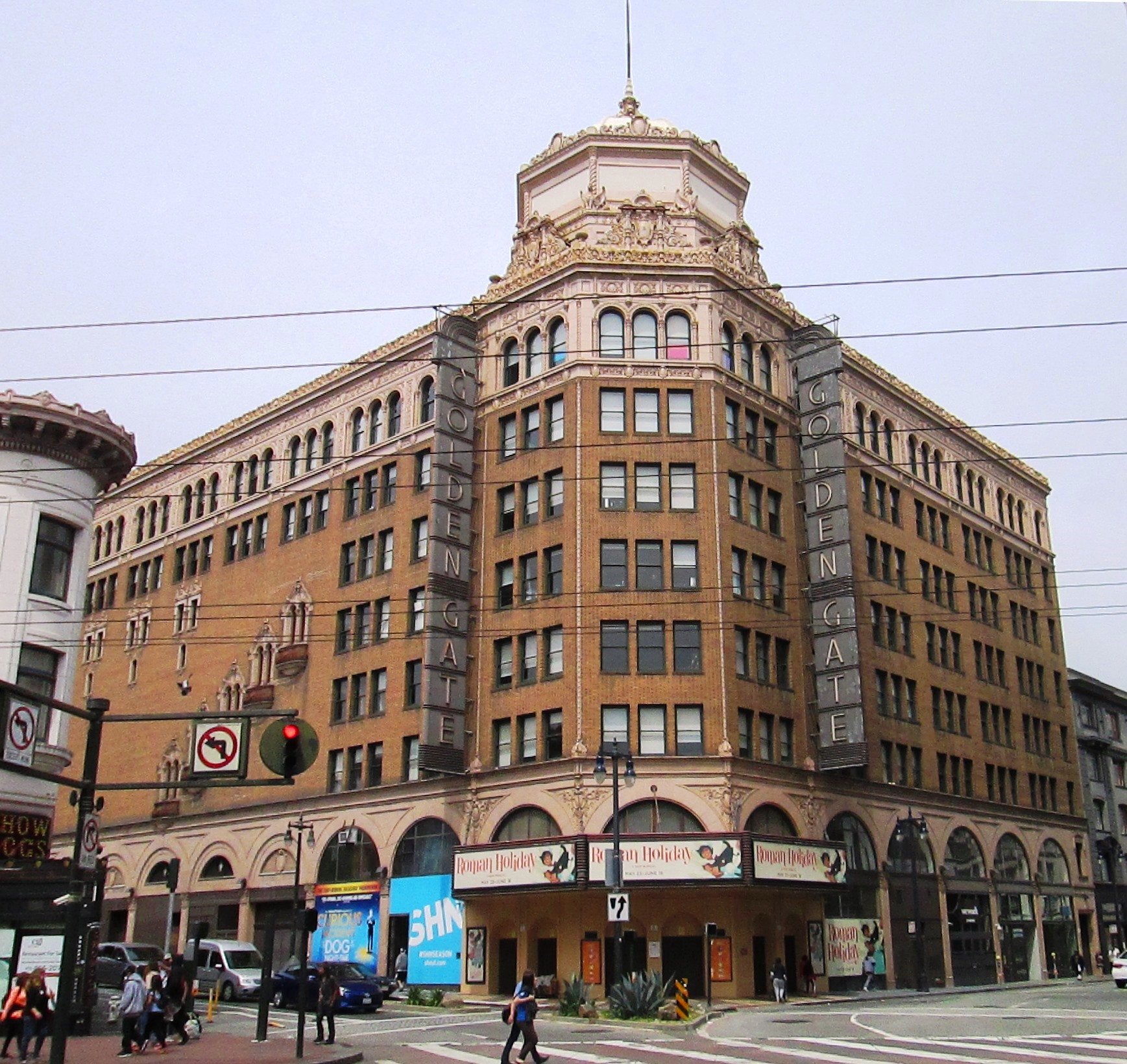 The Golden Gate Theatre is located at 1 Taylor Street at the corner of Golden Gate Avenue in San Francisco, California. It opened in 1922 as a vaudeville house and later was a major movie theater. In the 1960s it boasted a Cinerama screen, but by the early 1970s it had declined and was showing blaxploitation films. It was restored and reopened as a performing arts venue in the late 1970s. The venue is primarly used for touring Broadway shows and pre-Broadway tryouts. The theatre is part of the MArket Street Theatre and Loft District, which is listed on the National Register of Historic Places.